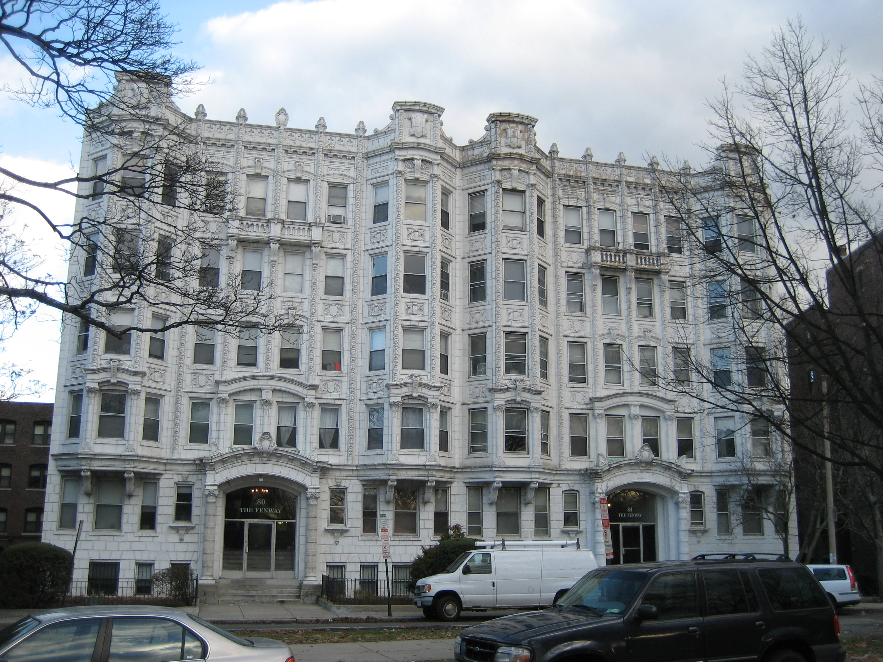 Example of the ornate facades of buildings located along the Fenway. 80 and 84 Fenway are pictured. (I did not notice the naming error until it was too late)